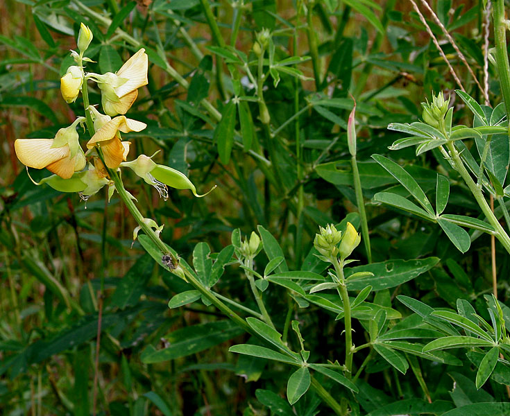 Rattlepod Crotalaria quinquefolia in Goa, India.